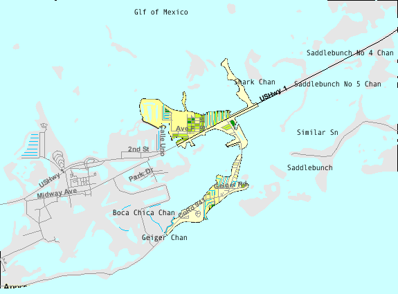 map of the CDP of Big Coppitt Key, Florida showing boundaries